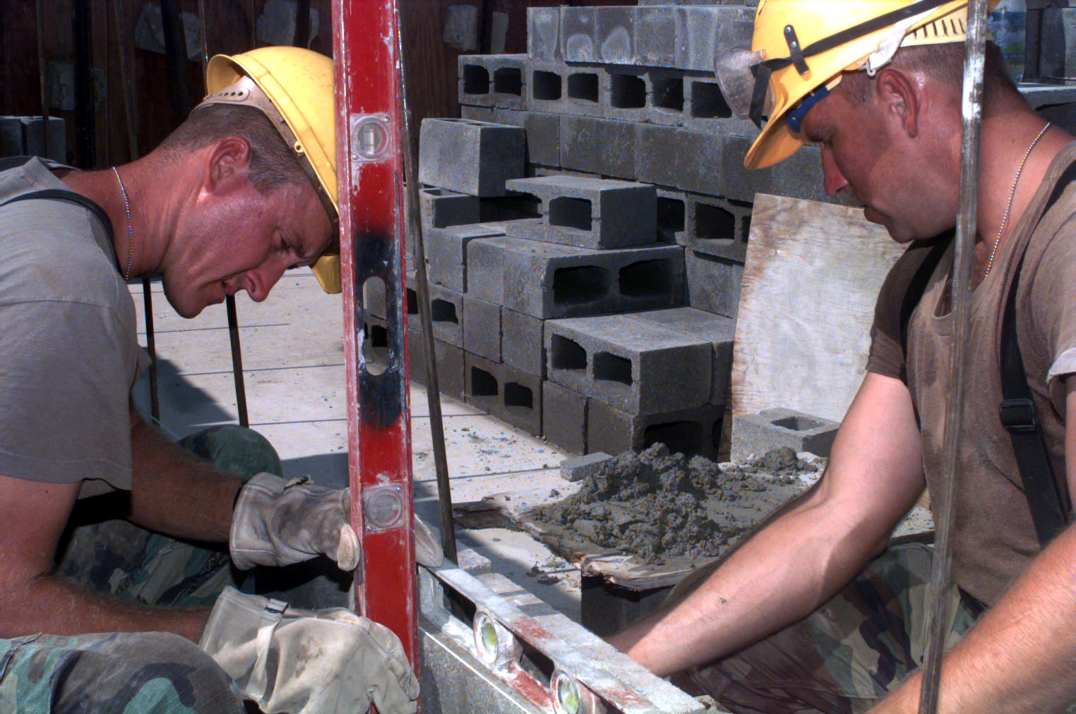 Staff Sgt. Rathe Thompson (left), and Spc. Kenneth Anderson check the level and plumb of concrete block they are laying as they construct a school building at the Isidore School in Port-au-Prince, Haiti, on Sept. 20, 1996. The two U.S. Army engineers are deployed to Haiti from the 1st Platoon, Alpha Company, 864th Engineers, Fort Lewis, Wash., for a Exercise Fairwinds humanitarian relief operation.